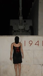 Vstajniške socialne delavke, fotografija iz feminističnega koledarja